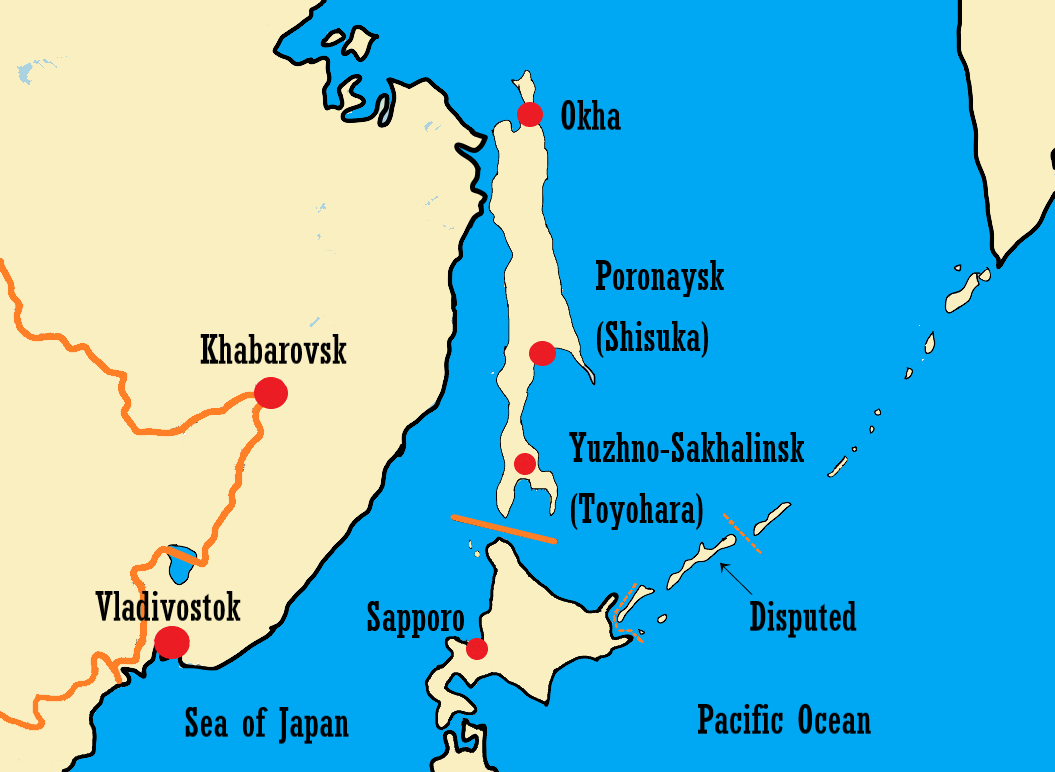 The map of Sakhalin and her surroundings. (I added former Japanese names below some places in Southern Sakhalin with refering for former Karafuto-chō.)